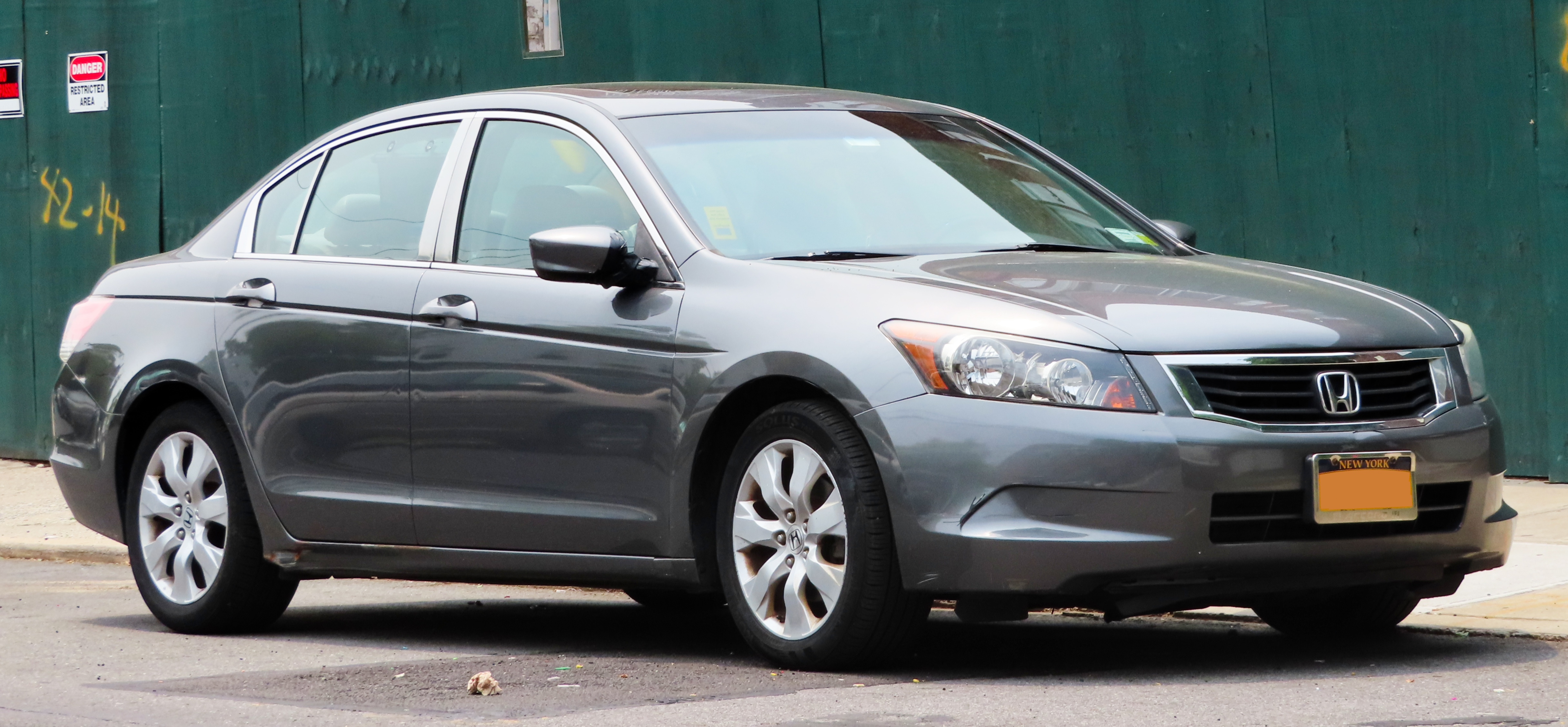 A 2008 Honda Accord EX-L photographed in Flushing, Queens, New York, USA